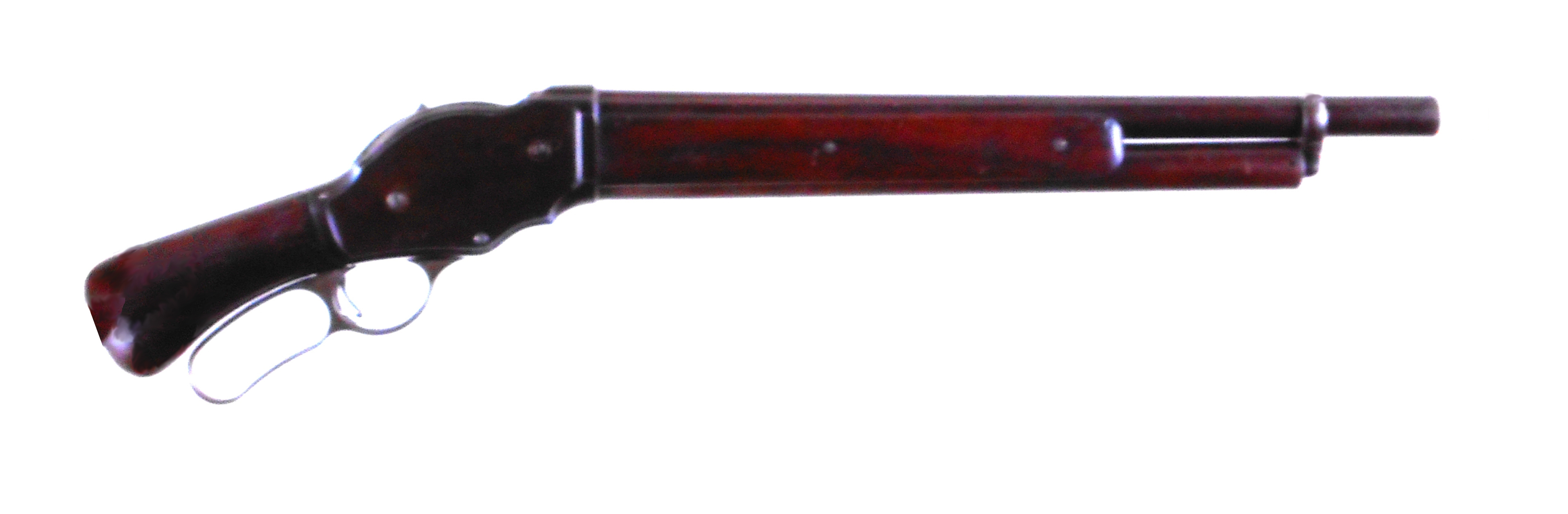 Winch 1887 shortened